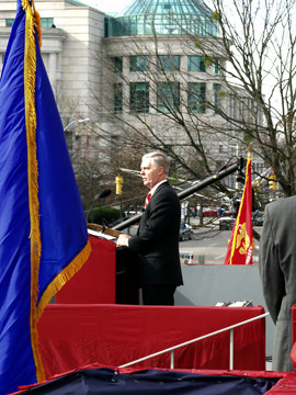 January 15, 2005 Governor Mike Easley's second Inauguration. From the NC Department of Natural and Cultural Resources, State Archives of NC.